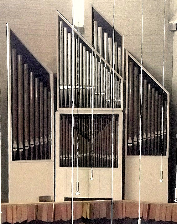 Interior of the protestant church in Dillingen, Saarland, Germany